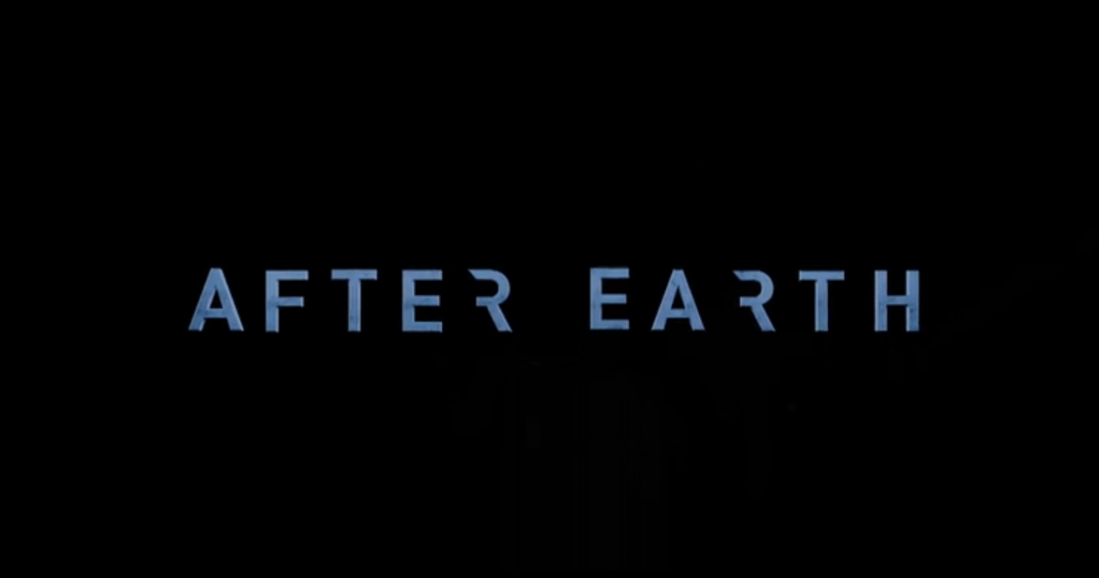 After earth logo